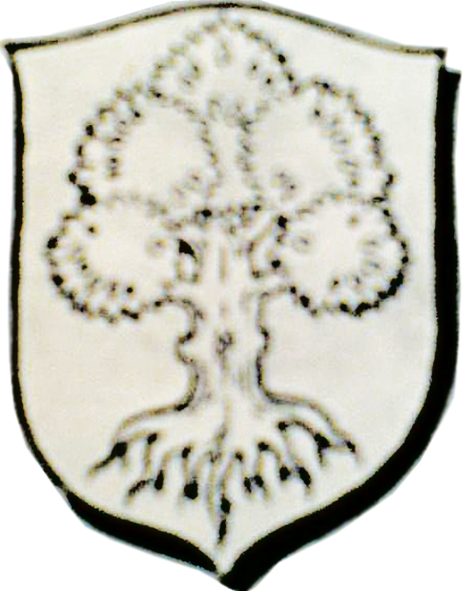 old Coat of arms of Eschenrode, Germany